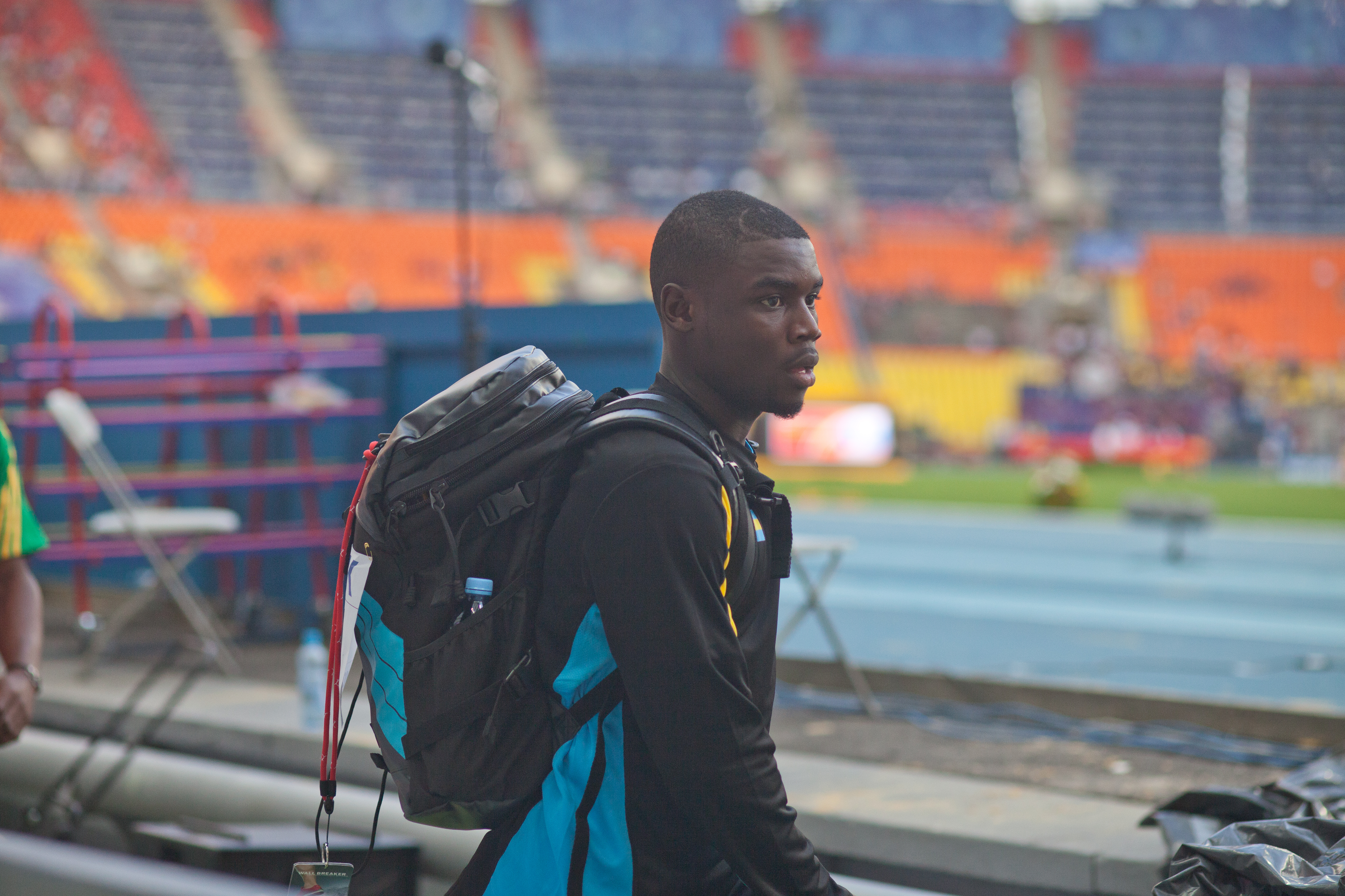 Shavez Hart during 2013 World Championships in Athletics in Moscow.